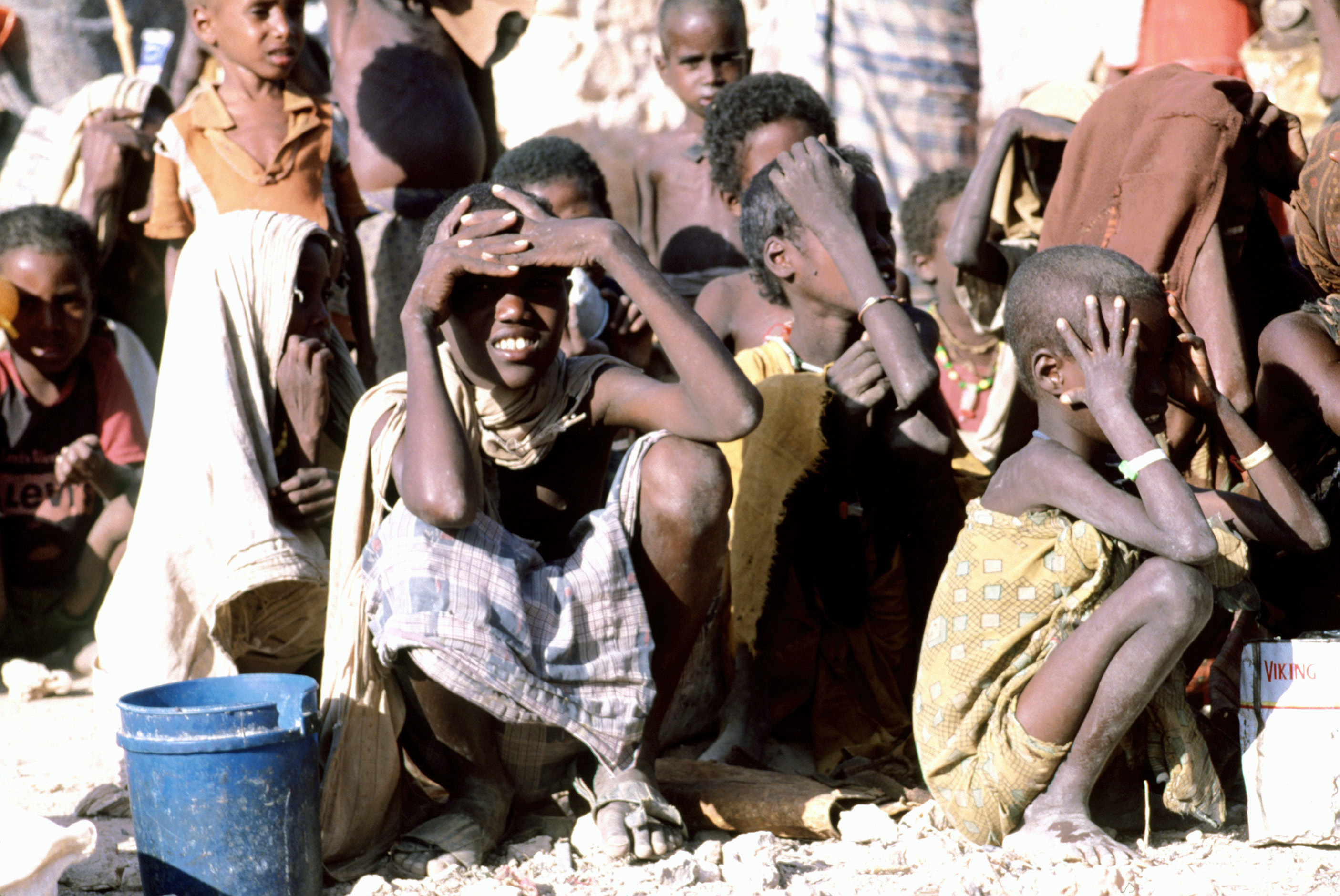 Somalians sit in the sun as they wait for food provided during Operation Provide Relief, Somalia. This sign was one of many sights taken-in by a congressional fact-finding delegation. The delegates, directed by Rep. John Lewis (D-GA) and Rep. Bill Emerson (D-MO), toured several humanitarian relief sites to determine the impact of U.S. aid in the besieged country.